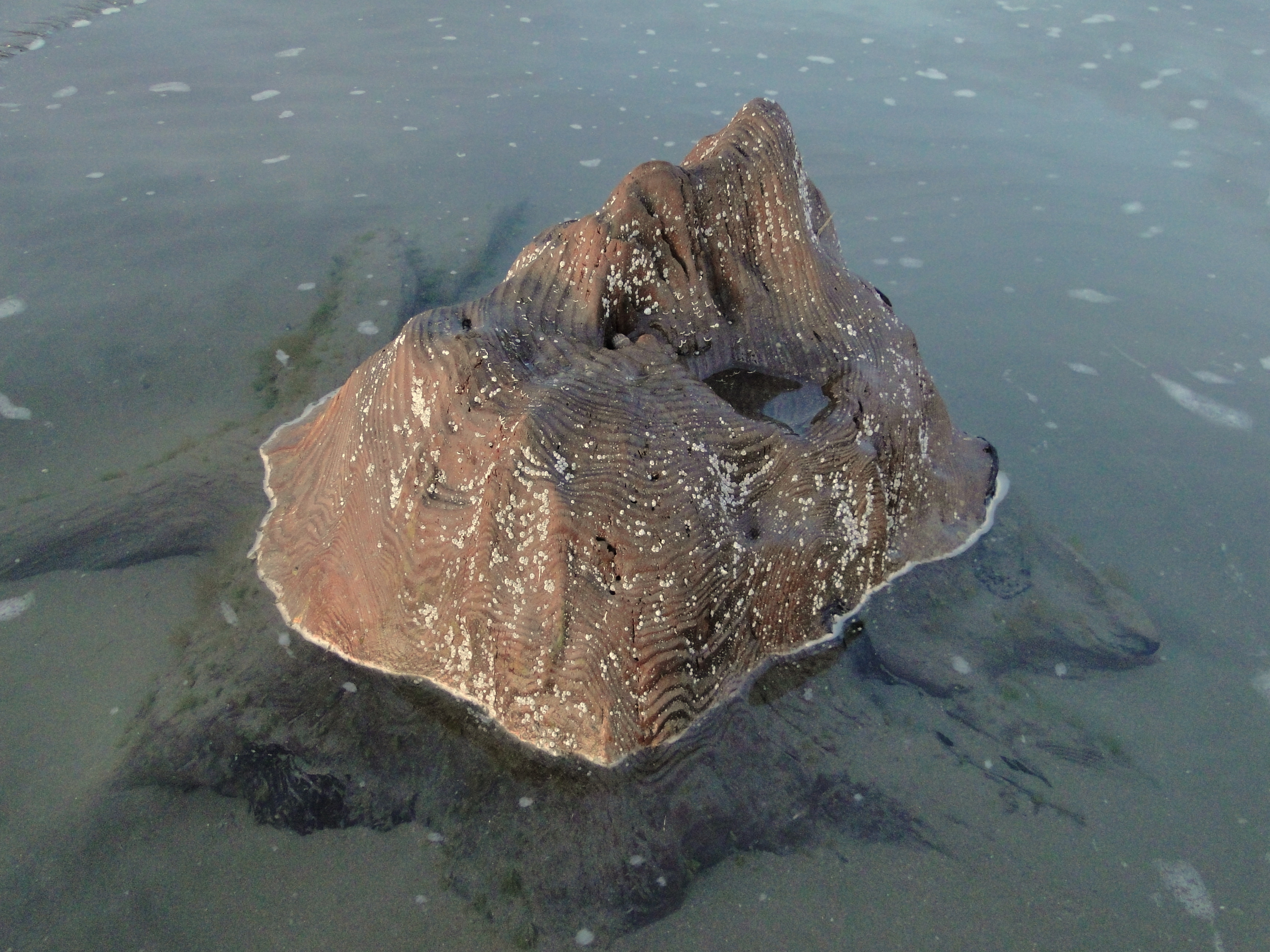 Preserved tree stump on Borth sands near Ynslas, Ceredigion, Wales. The stumps are the remains of an ancient submerged forest that extends along the Ceredigion and Pembrokeshire coast. They are only exposed in a few places at low tide, in places such as Borth and Ynyslas. At Whitesands Bay, Pembrokeshire, they are only visible at very low (neap) tides